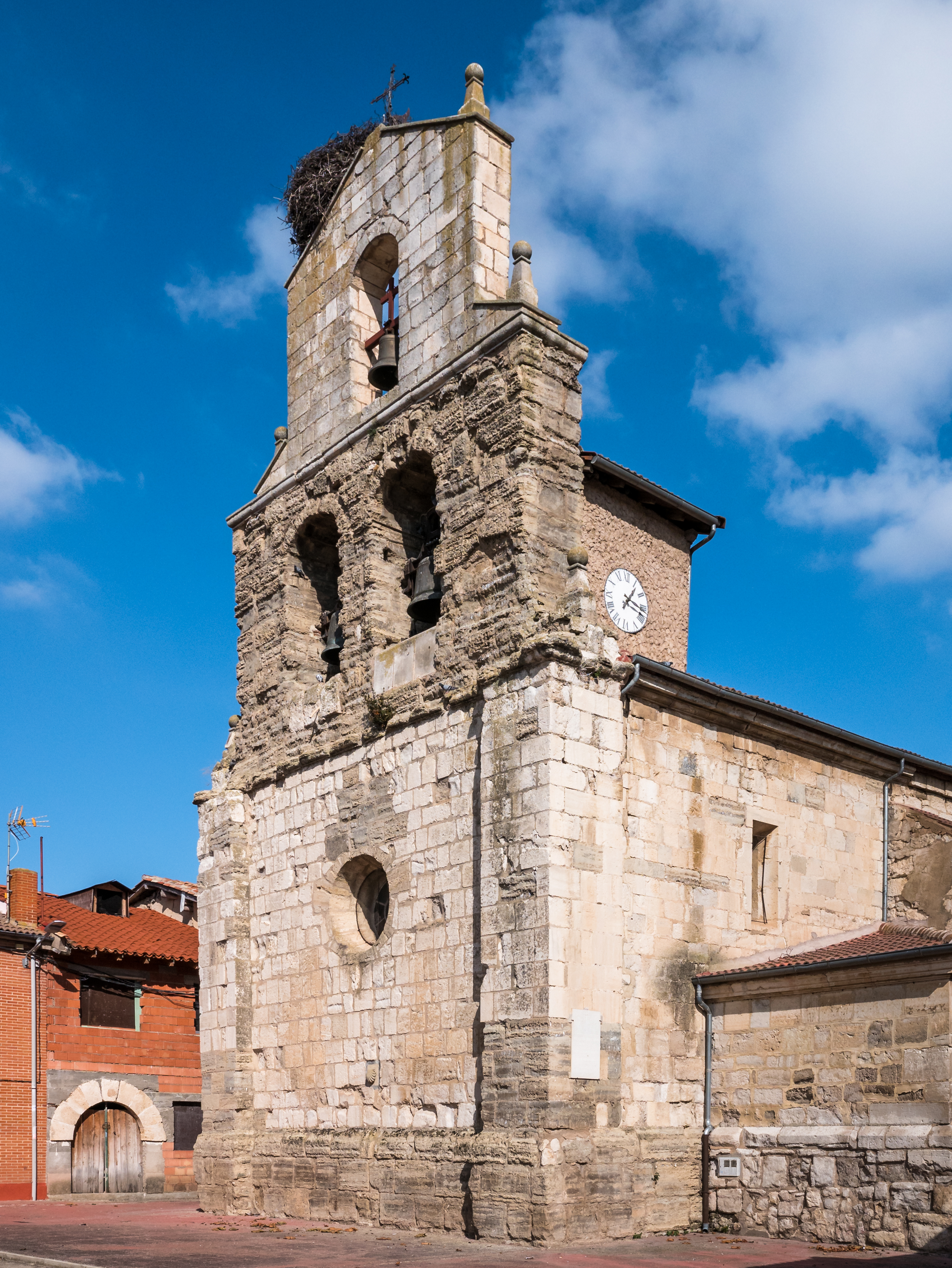 Church of Prádanos de Bureba. Burgos, Castilla-León, España